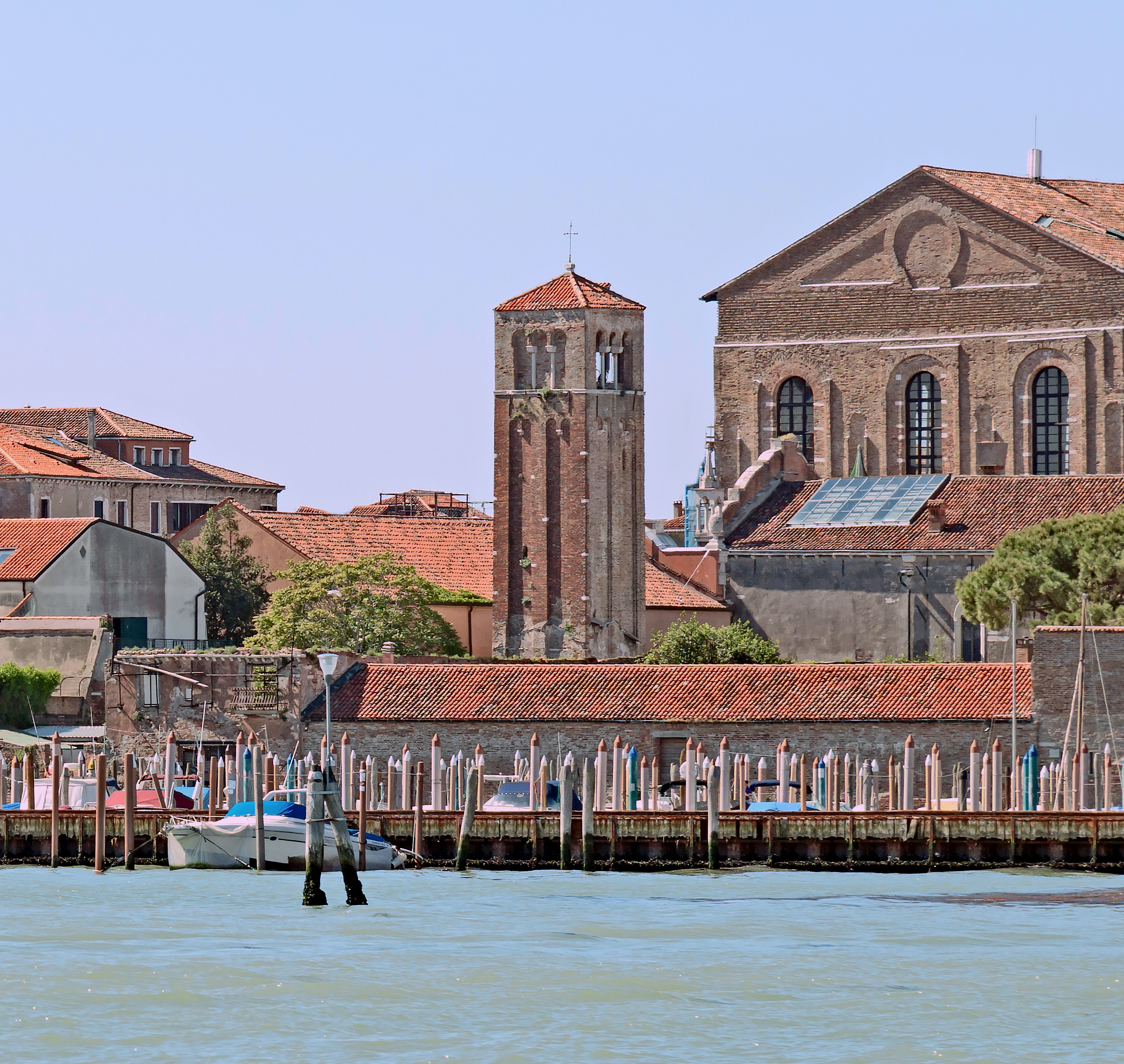 Church of Santa Maria della Misericordia Venice, bell tower.